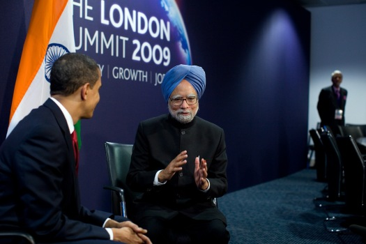 President Barack Obama meets with Indian Prime Minister Manhohan Singh during a bilateral meeting at the G-20 Summit in London, April 2, 2009.